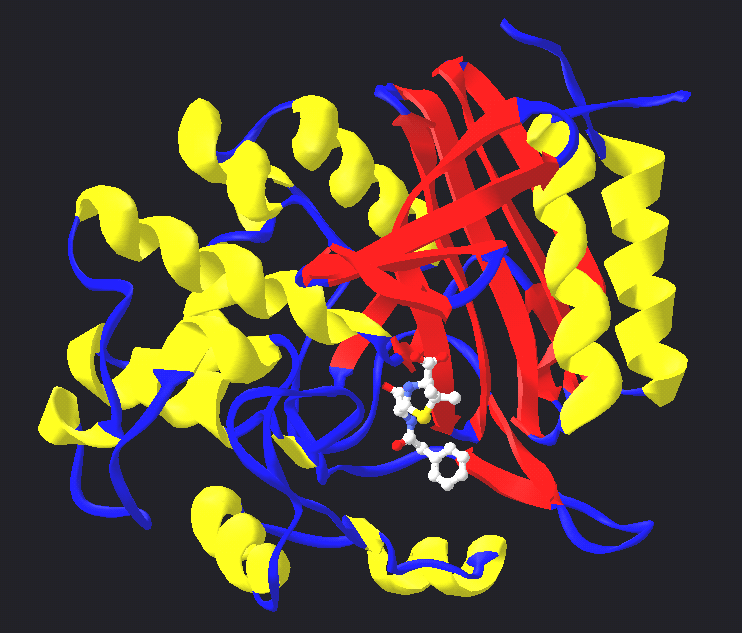 Penicilloyl acyl enzyme complex of the Streptomyces R61 DD-peptidase with penicillin G. Generated from PDB 1PWC